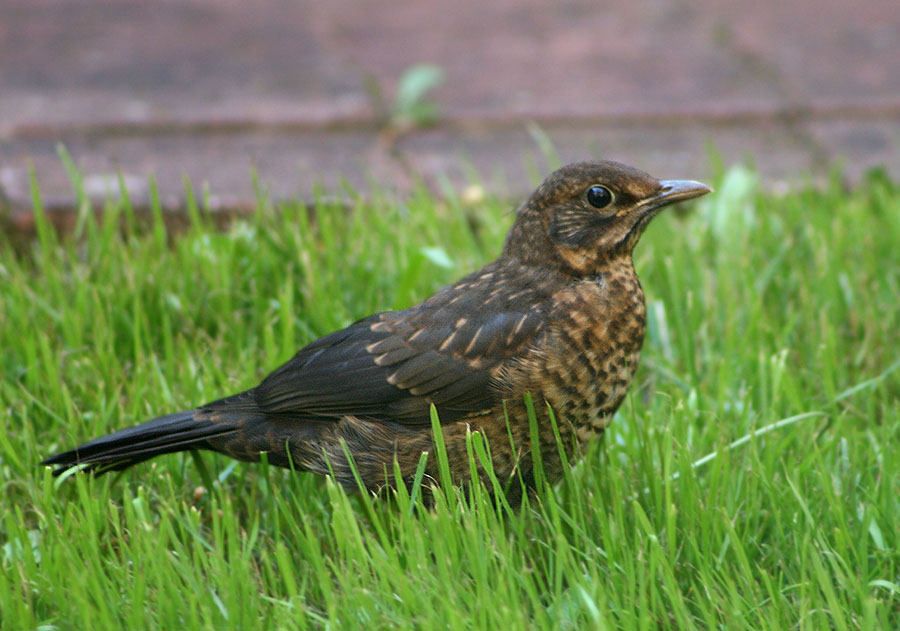 Blackbird or Common Blackbird (Turdus merula) , juvenile